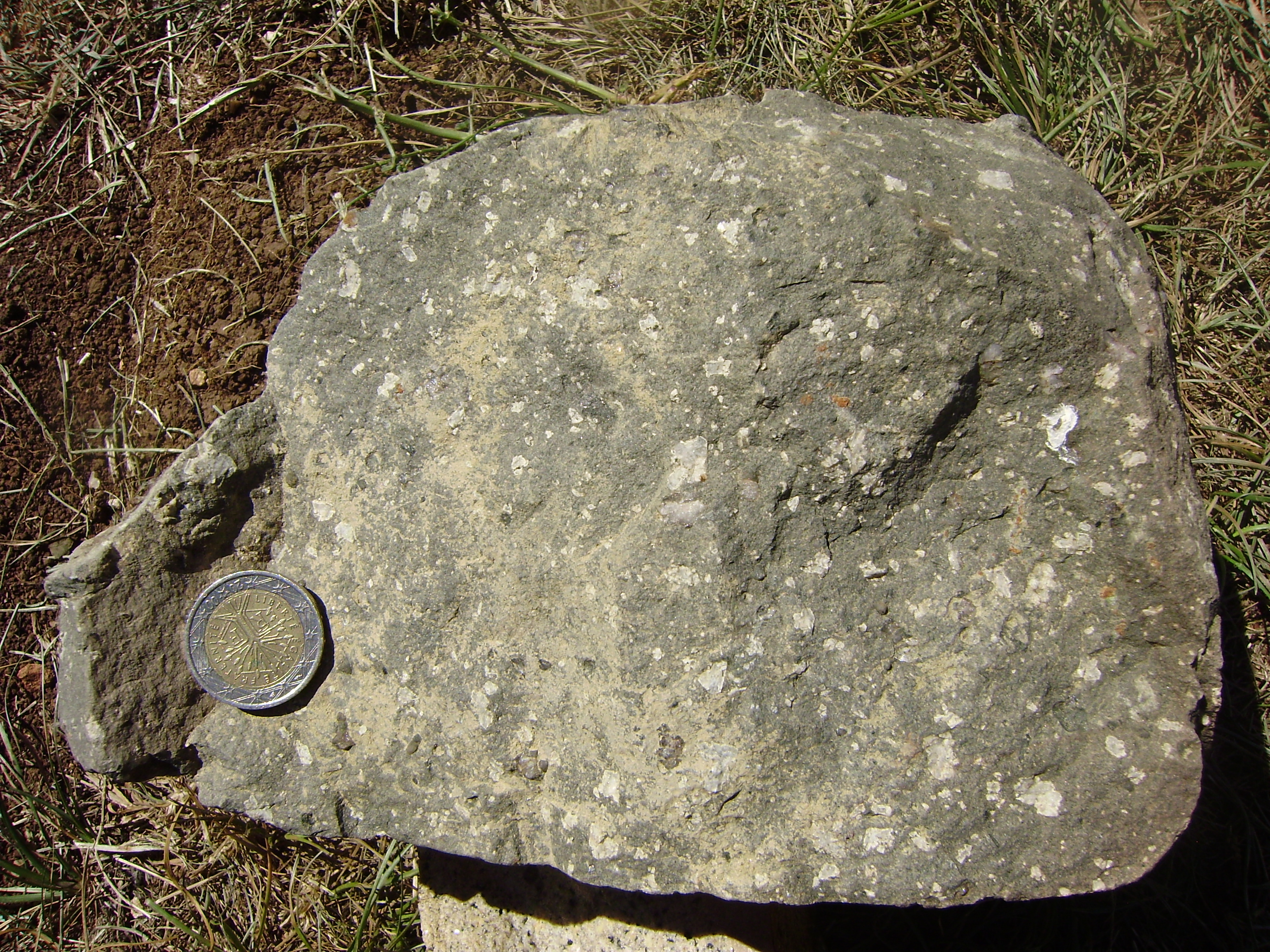 Porphyric microgranodiorite, northern apophysis of the Piégut-Pluviers granodiorite, northwestern Massif Central, France.